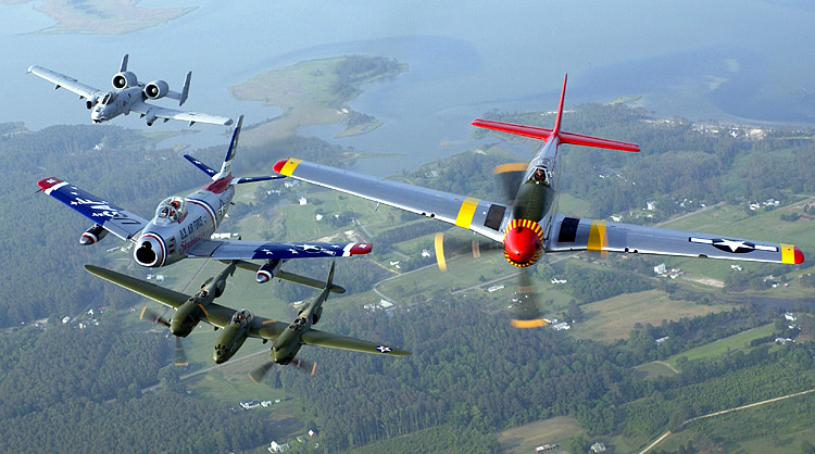 From left to right, an A-10 Thunderbolt II, F-86 Sabre, P-38 Lightning and P-51 Mustang fly in formation during an air show at Langley Air Force Base, Virginia, USA. The formation displays two generations of Air Force fighters and a 1970s vintage ground attack aircraft. CREDIT: U.S. Air Force photo by Tech. Sgt. Ben Bloker. COPYRIGHT: Quote from af.mil: Information presented is considered public information and may be distributed or copied. Use of appropriate byline/photo/image credits is requested. PICTURE PREPARED for Wikipedia by Adrian Pingstone in May 2004.